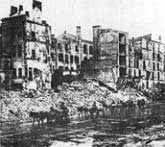 Destroyed Khreschatyk in Kiev in 1943.